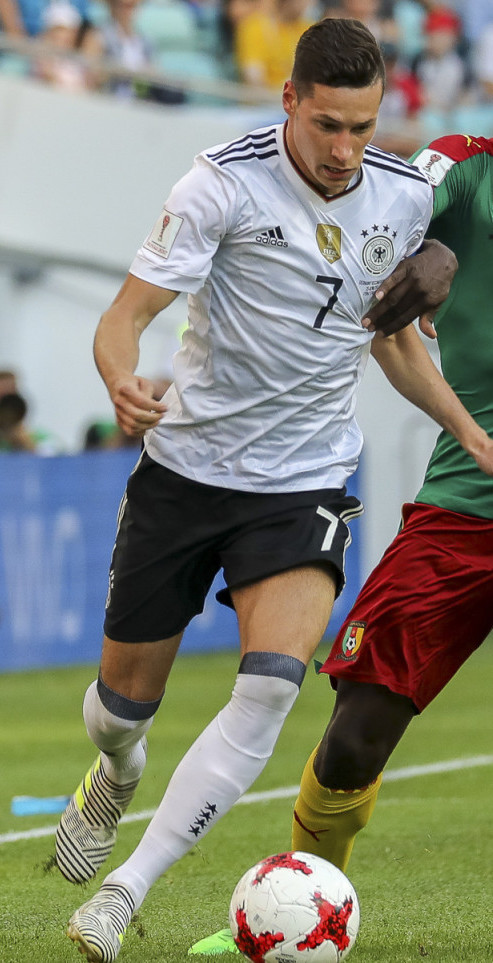 Germany VS. Cameroon 3 - 1, 25 June 2017